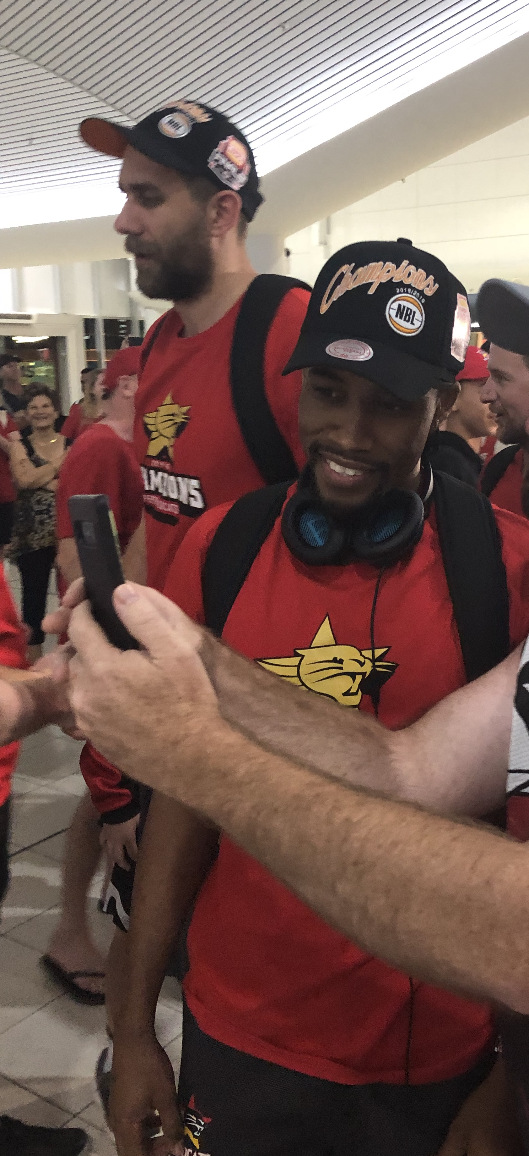 Bryce Cotton (front) and Tom Jervis (behind) of the Perth Wildcats